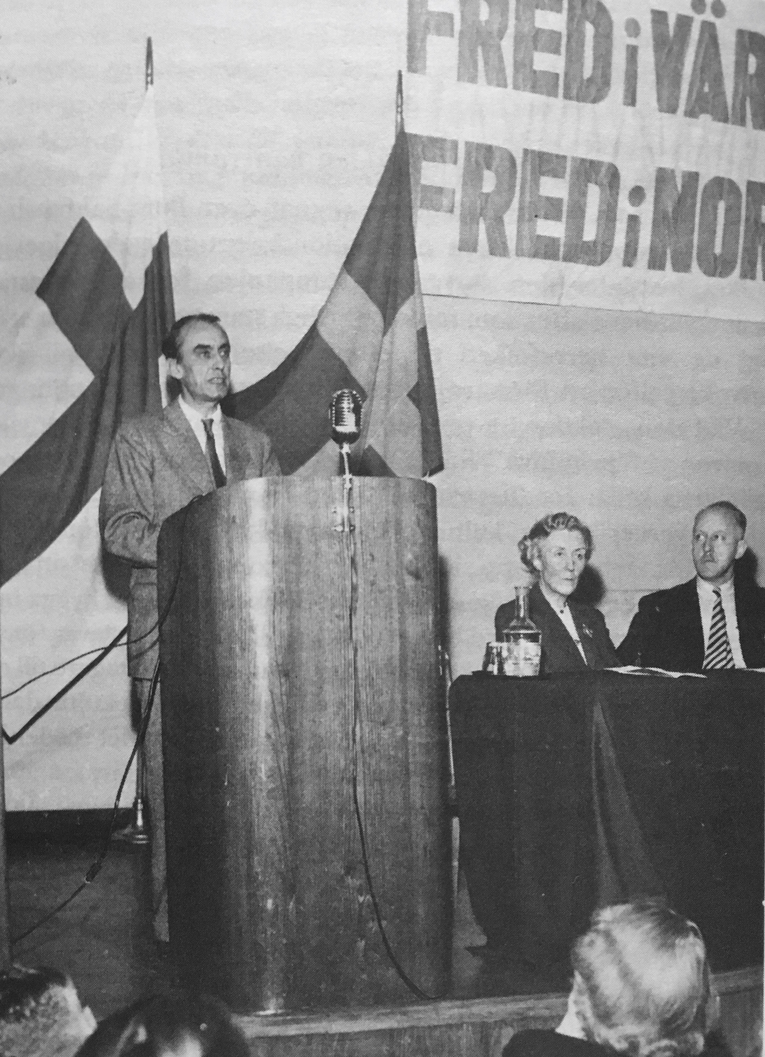 Professor Mogens Fog, former leader of the Danish resistance movement, on the rostrum at a Nordic peace conference in Stockholm. Pictured on the right is M.D. Andrea Andreen, Chairwoman of the Swedish Women's Left-Wing Association, and Icelandic author Halldór Laxness.